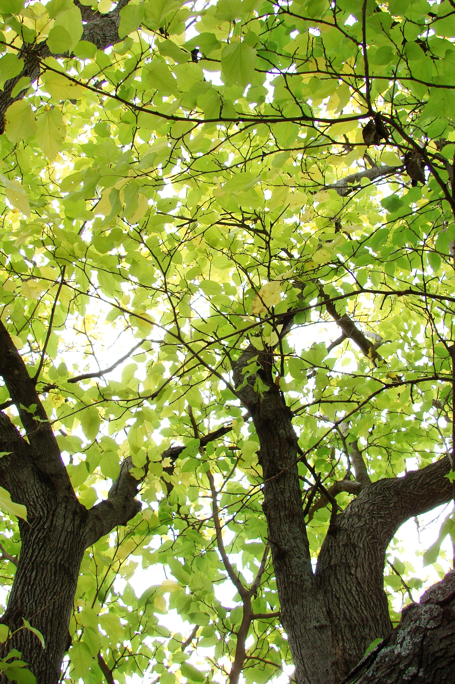 Sunlit tree canopy (Morus alba).